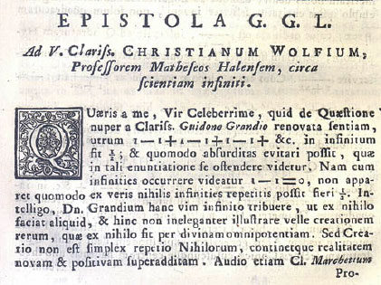 Photographic reproduction of half of the first paragraph of a letter by Gottfried Leibniz to Christian Wolff on the subject of Grandi's series 1 − 1 + 1 − 1 + · · ·, as published in the Acta Eruditorum in 1713.